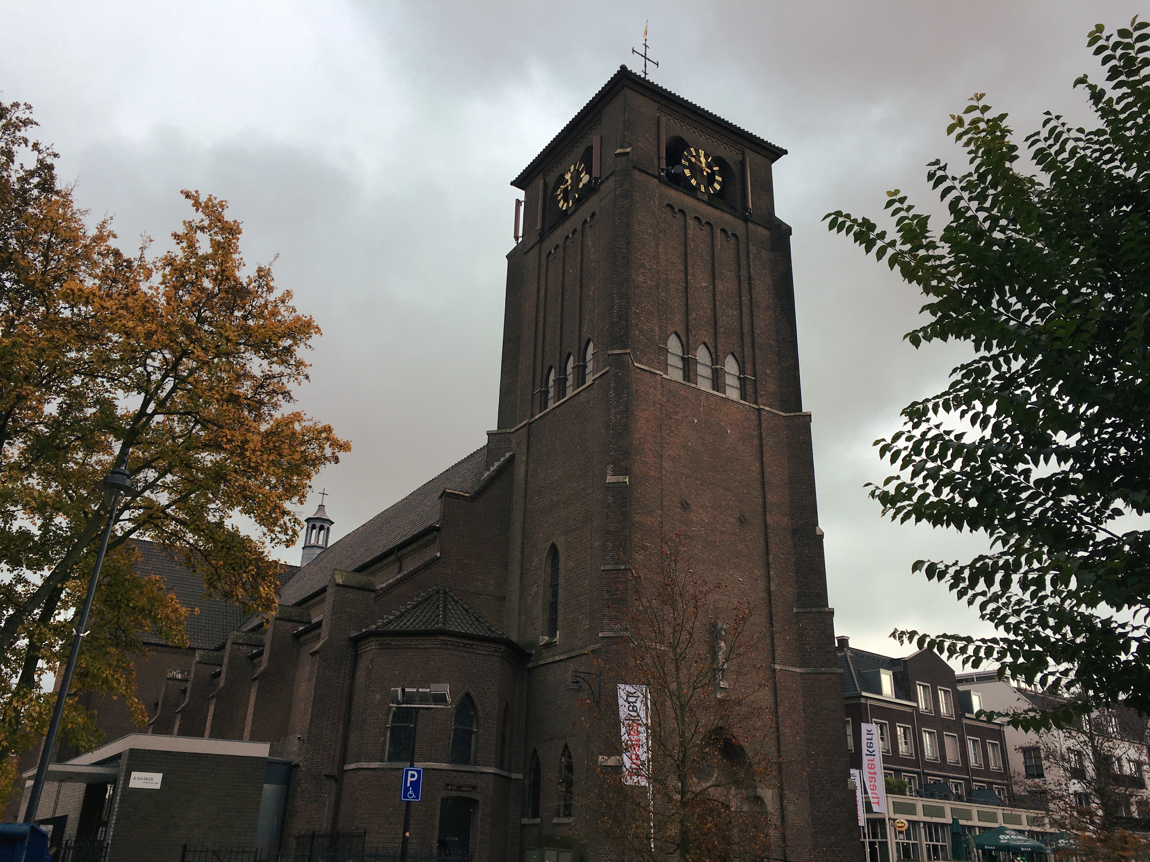 Side view of Theaterkerk Bemmell